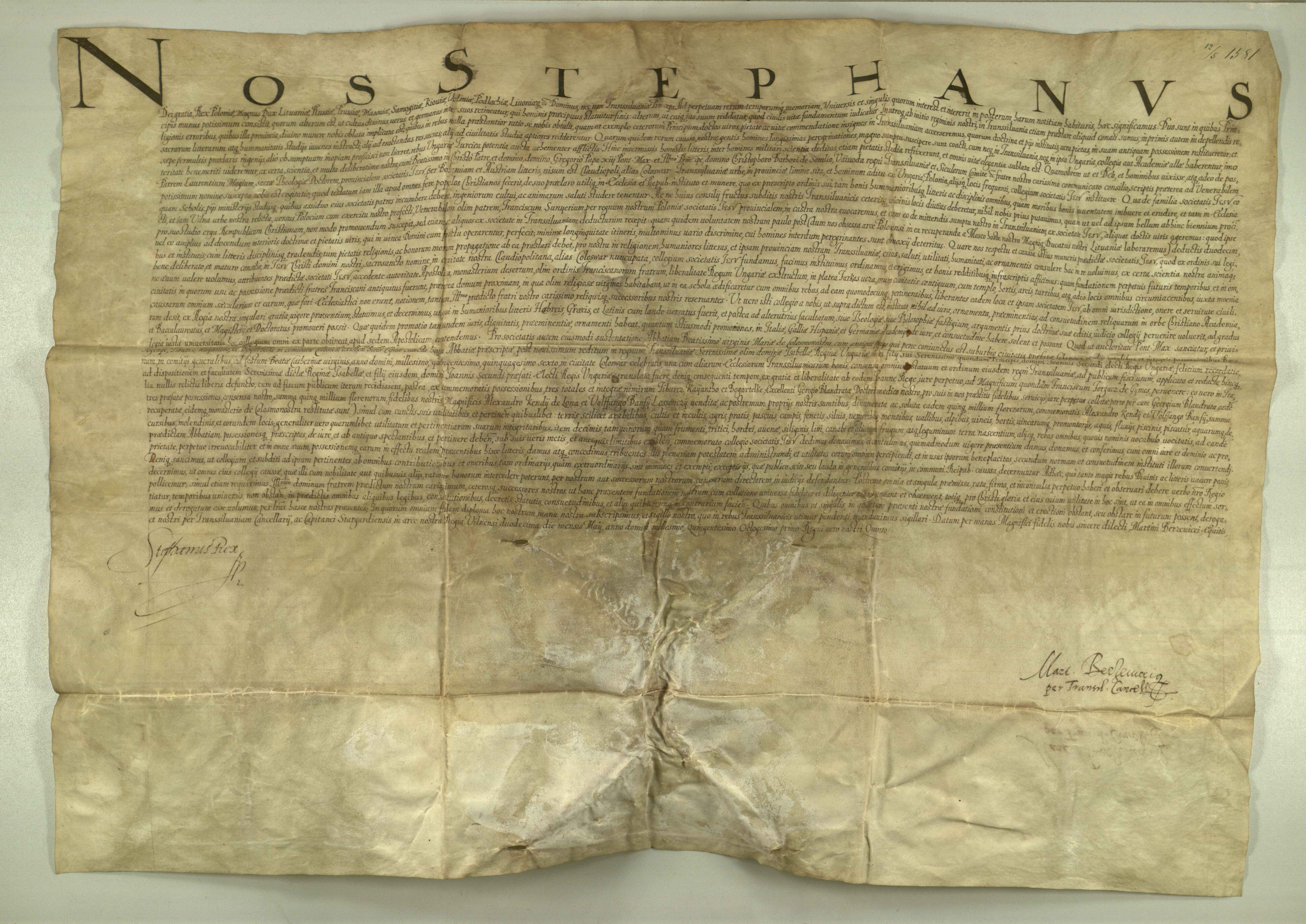 Digital scan of the document (Diploma) signed by Stephan Bathory, dating 1581, establishing the Claudiopolitan Academy Societatis Jesu in Cluj-Napoca, retrieved from Babes-Bolyai University.